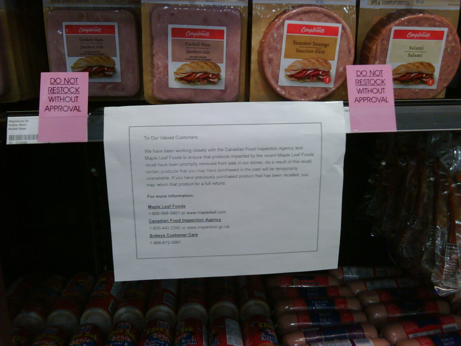 Photo of a meat recall notice at a local Sobey's grocery store. "To Our Valued Customers: We have been working closely with the Canadian Food Inspection Agency and Maple Leaf Foods to ensure that products impacted by the recent Maple Leaf Foods recall have been promptly removed from sale in our stores. As a result of this recall, certain products that you may have purchased in the past will be temporarily unavailable. If you have previously purchased product that has been recalled, you may return that product for a full refund."